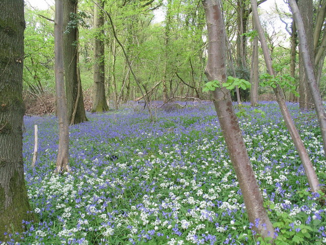 Wild garlic and bluebells in Highbury Wood. A deciduous woodland managed to encourage wild flowers - a real treat for walkers on the Offa's Dyke Path in early May